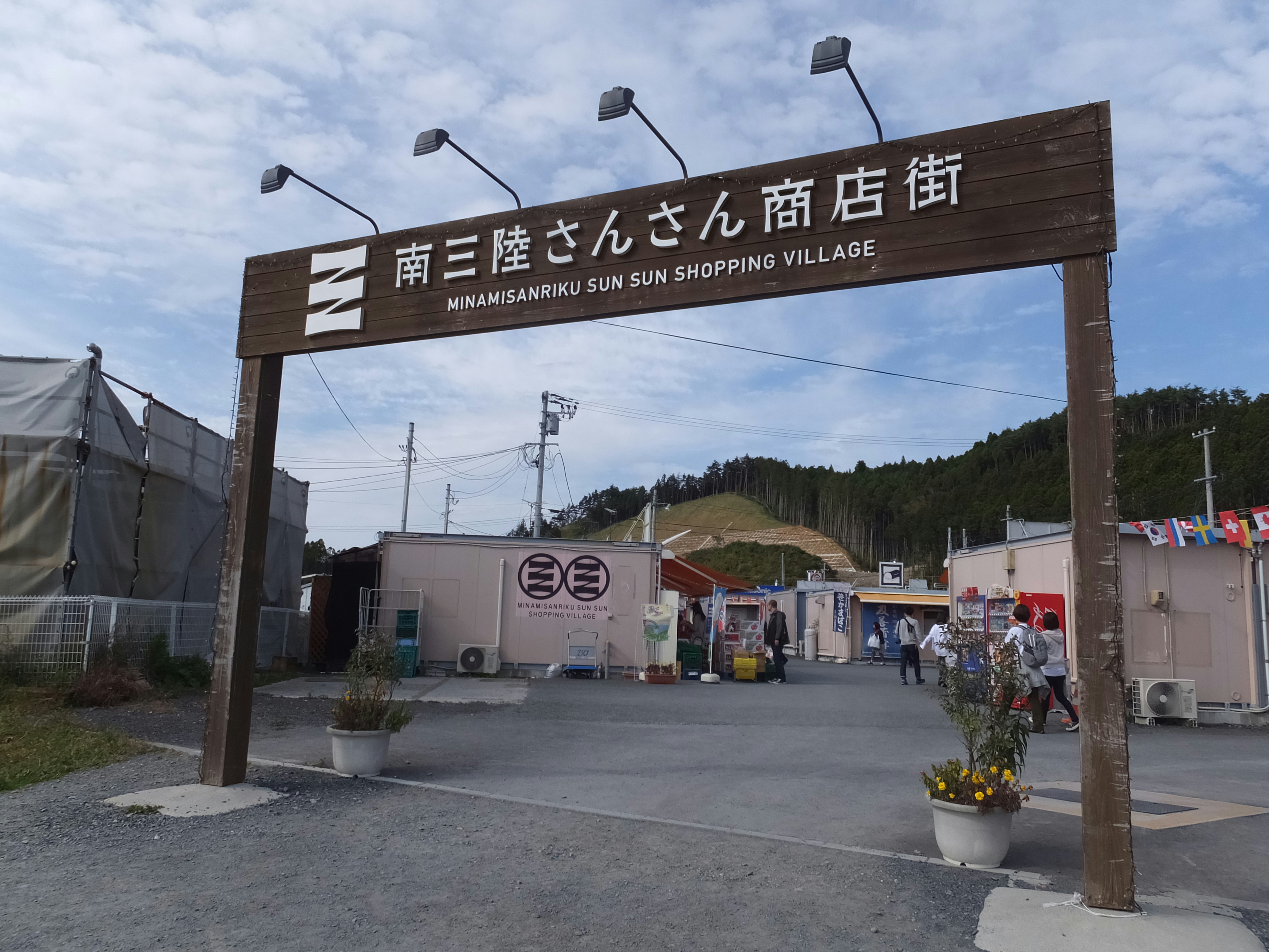 Temporary shopping center, located in Miyagi Prefecture Motoyoshi District Minami Sanriku-cho, "Minamisanriku sun sun shopping center (village)"